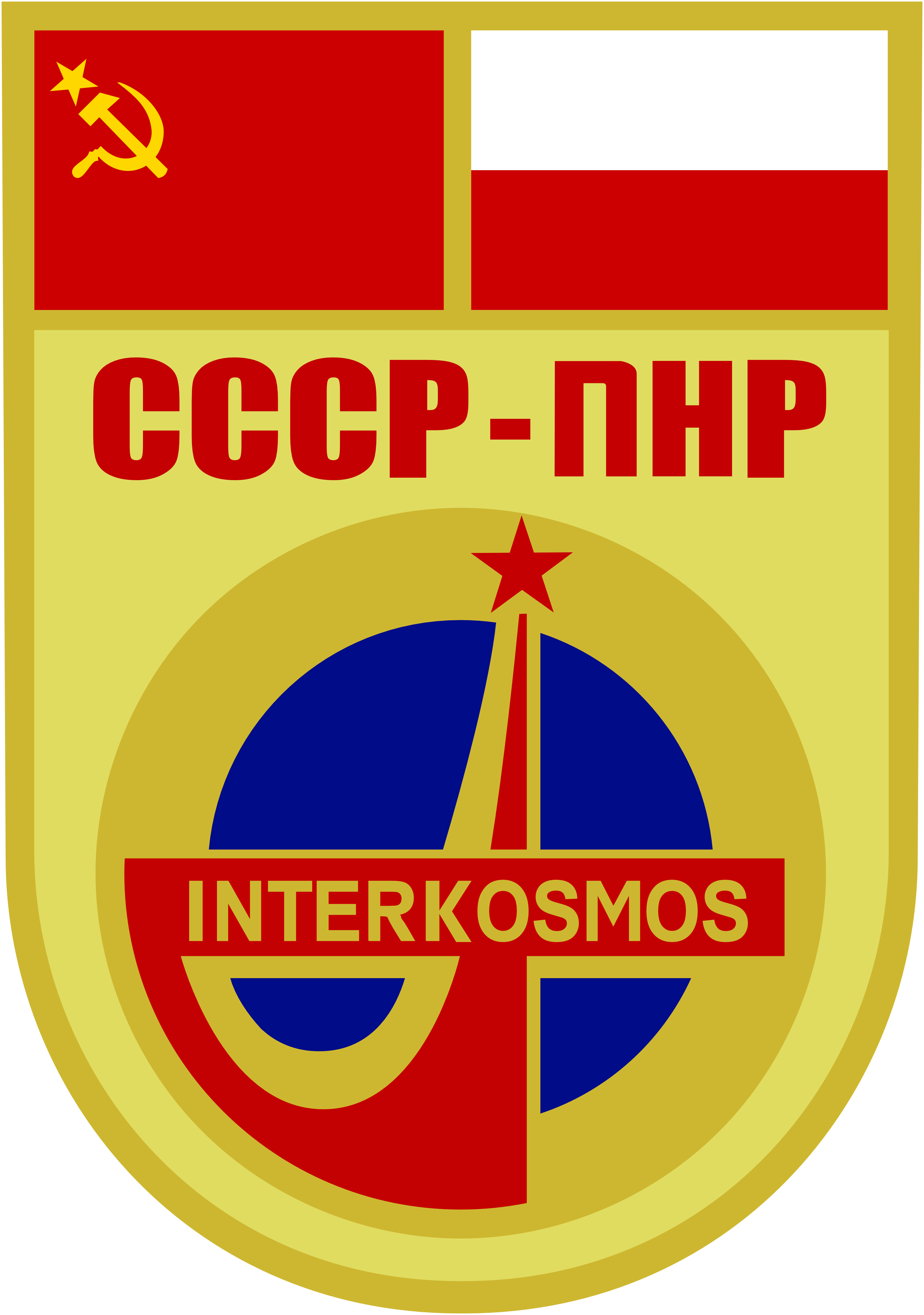 Soyuz 30 patch